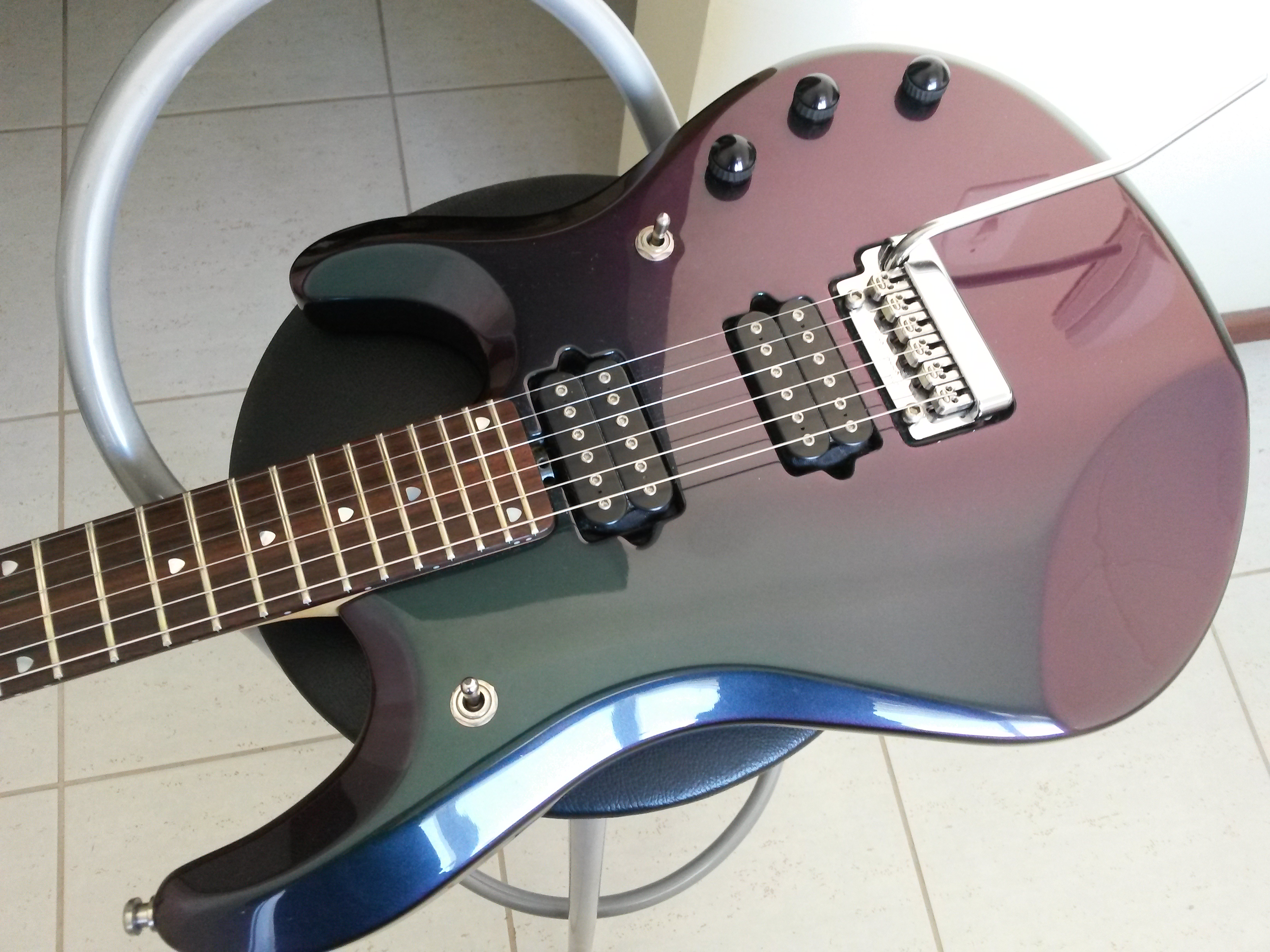 Ernie Ball Music Man JP6 guitar, mystic dream color, frontal view of body.